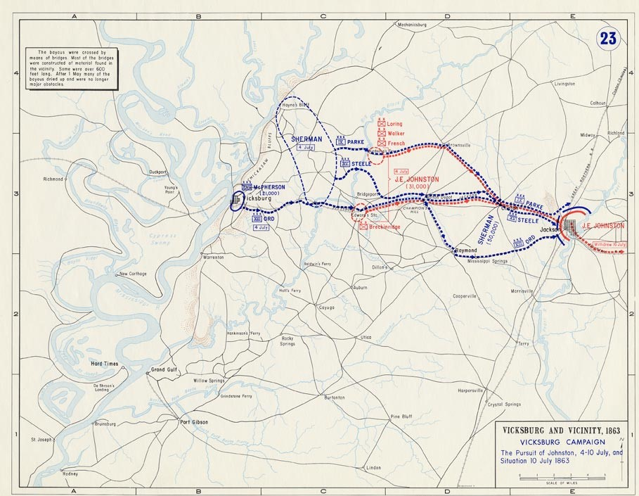 Vicksburg Campaign - The Pursuit of Johnston, 4 - 10 July 1863